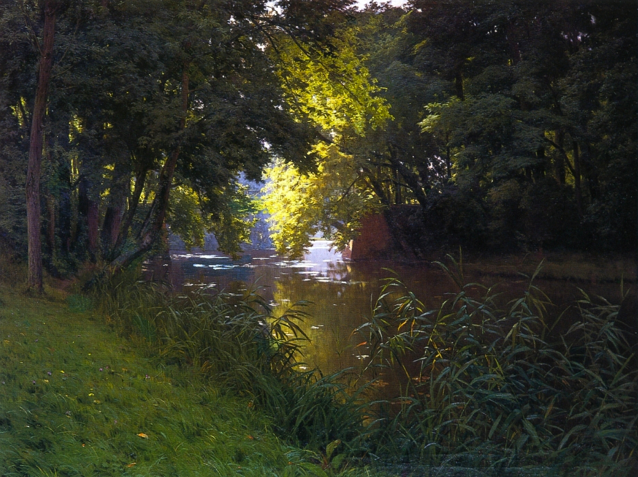 By the river